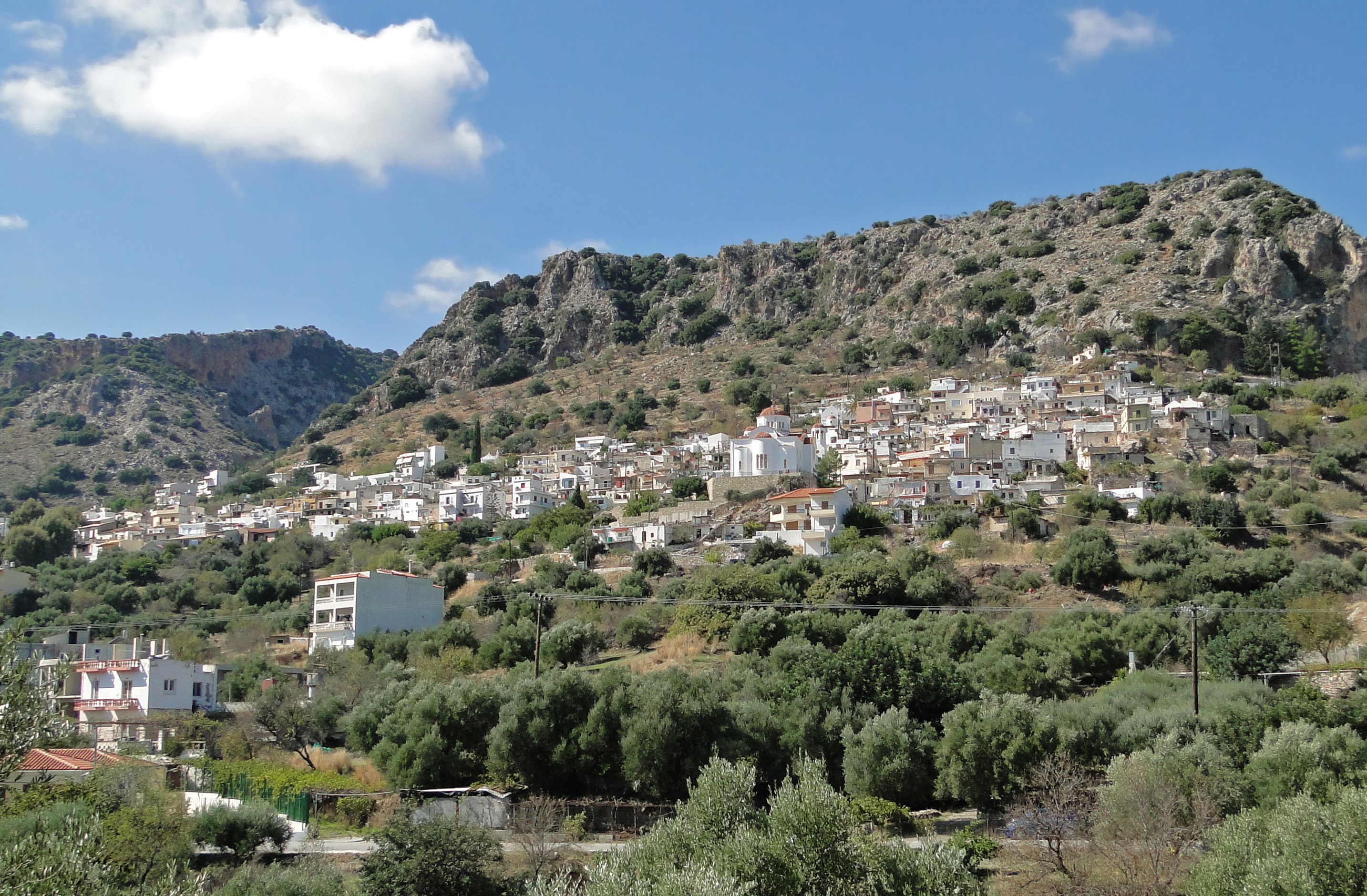 View of Kritsa, Crete, Greece